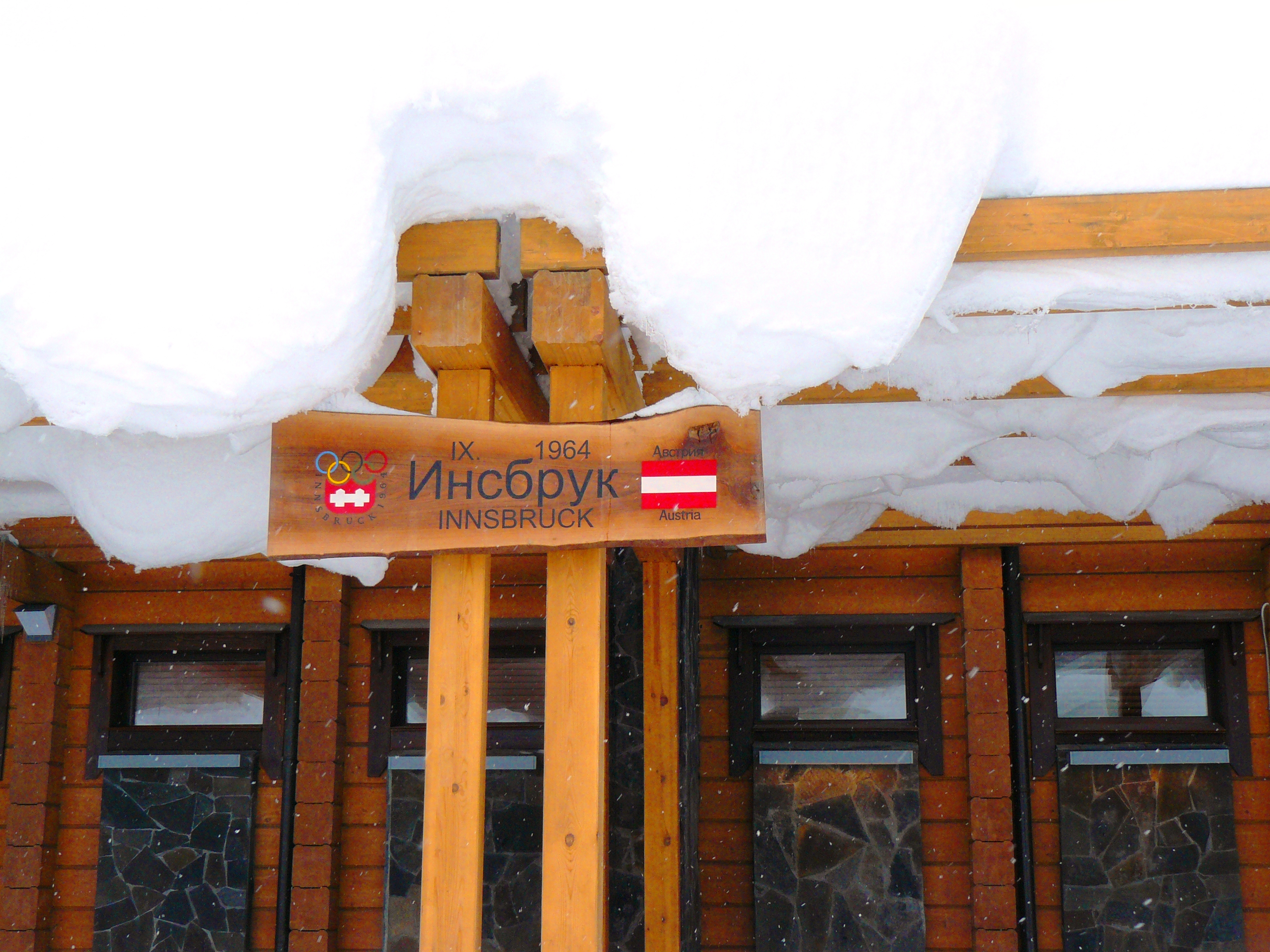 Mountain Ridge